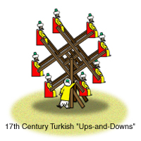 image of early ferris wheel, drawn by En:User:Ridetheory after a 17th Century engraving